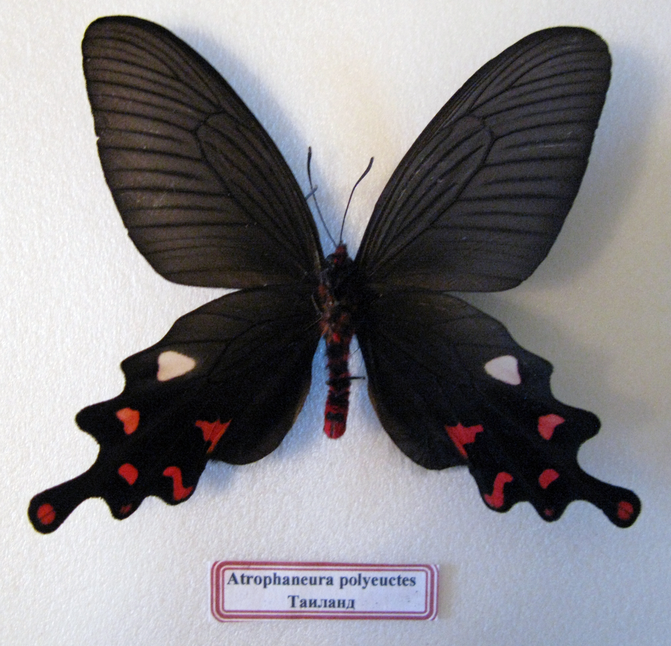 Atrophaneura polyeuctes (male verso)